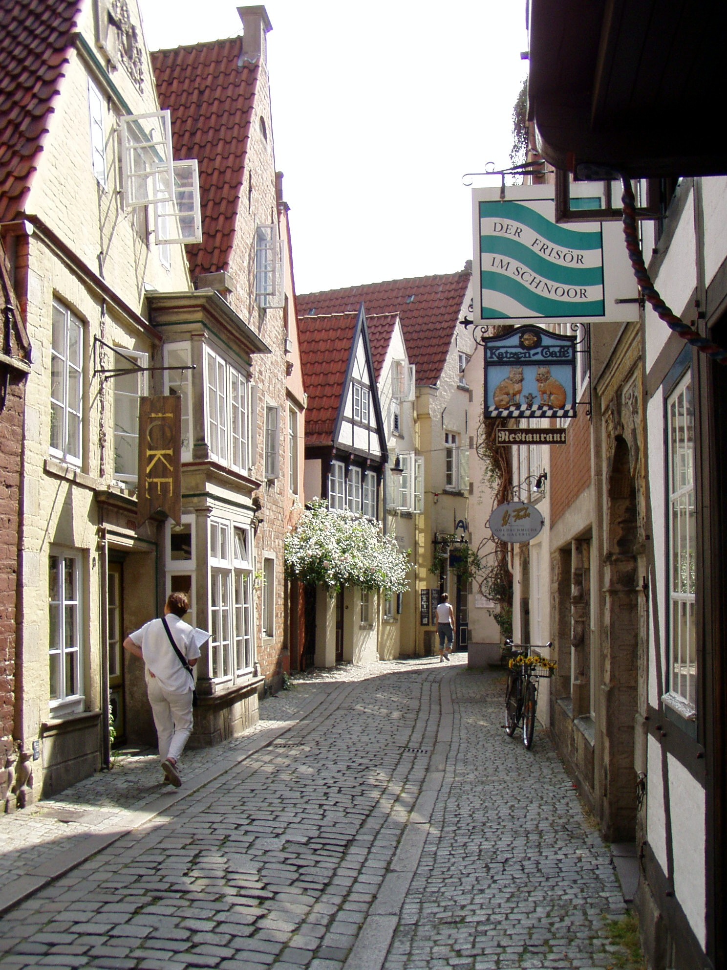 Schnoor, Part of the City Bremen, Germany